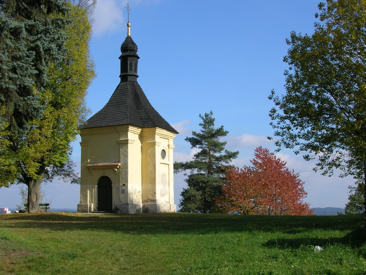 Třebíč-Domky. Exaltation of the Holy Cross Chapel